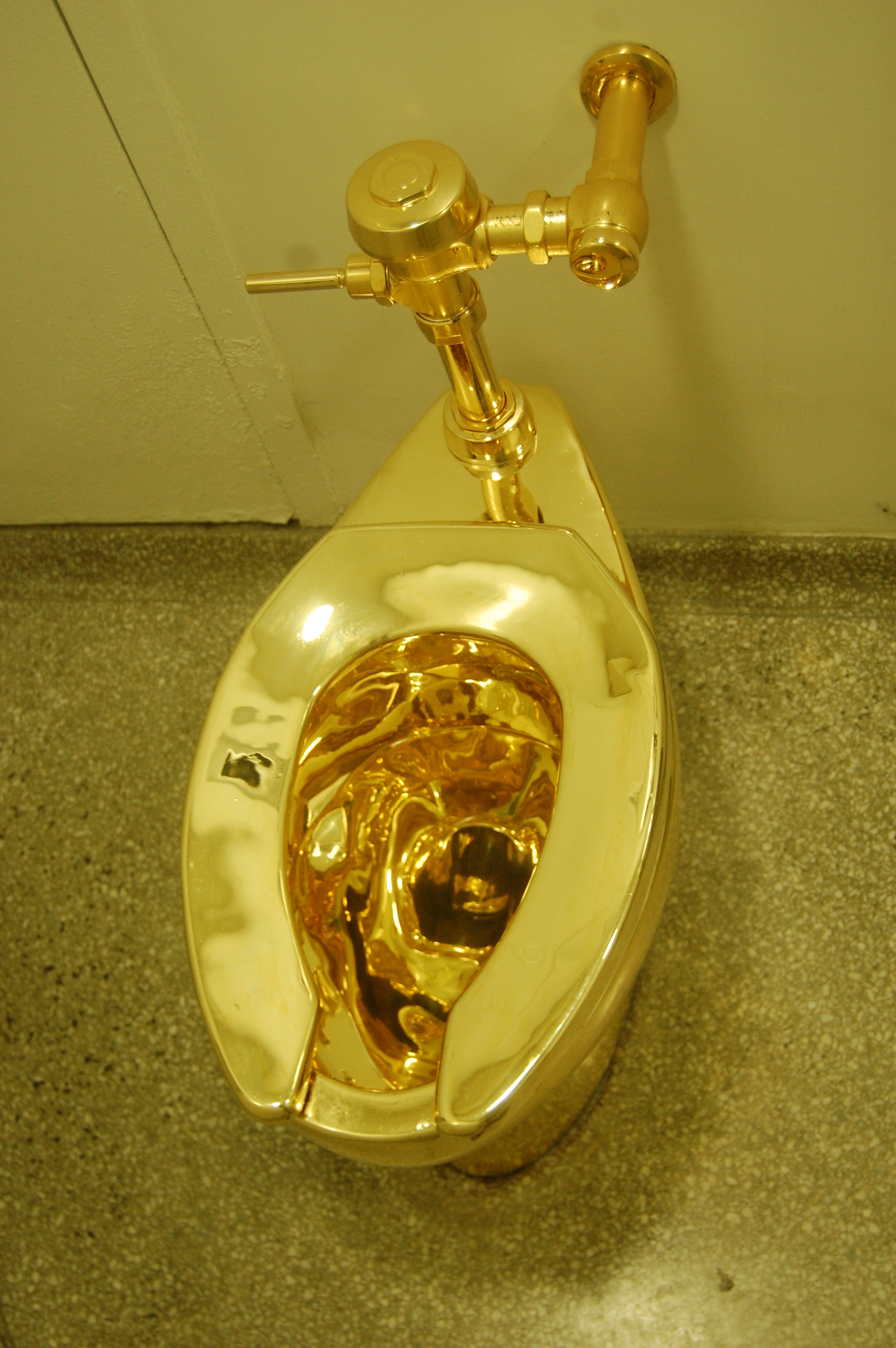 Gold-colored toilet